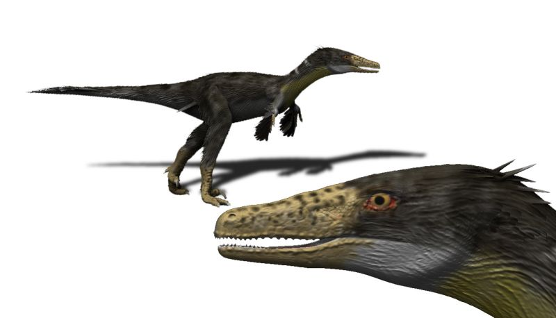 Austroraptor cabazai, a dromaeosaurid from the Late Cretaceous of Argentina. Digital.